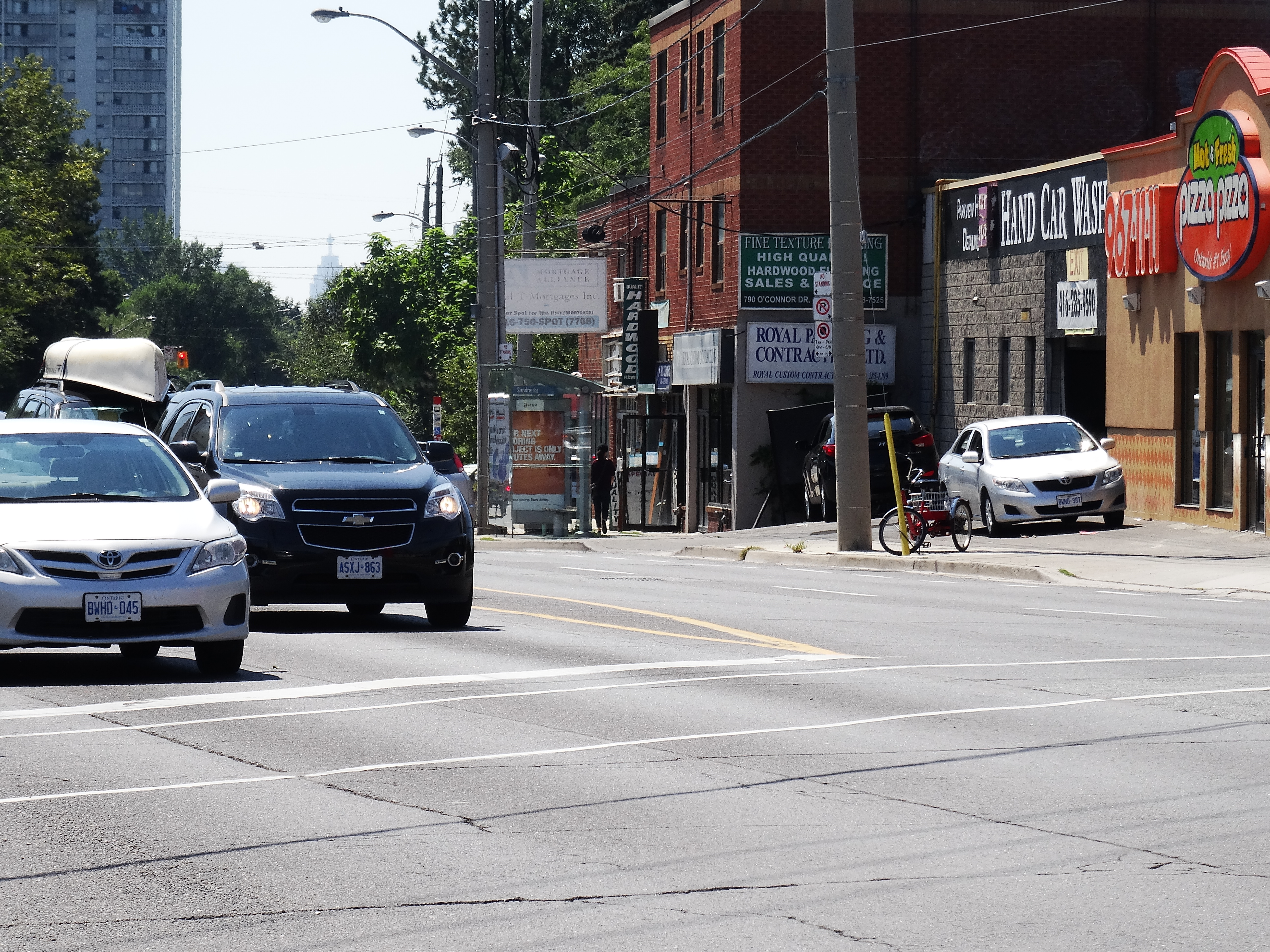 TTC shelter at the intersection of O'Connor and St Clair, 2016 08 19 (2).JPG